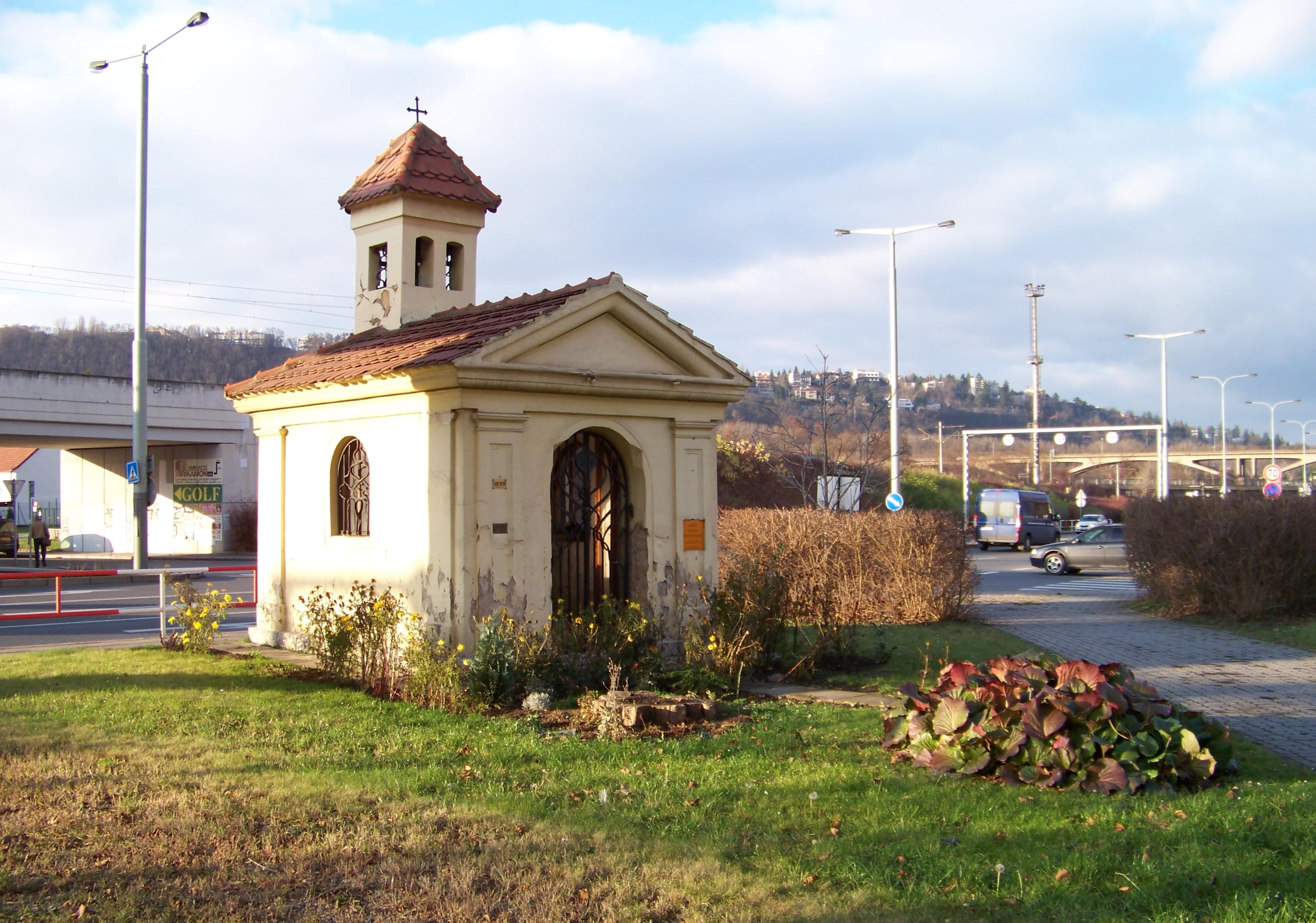 Prague-Hodkovičky, the Czech Republic. Saint Bartholomew Chapel. - Google Maps - Google Earth